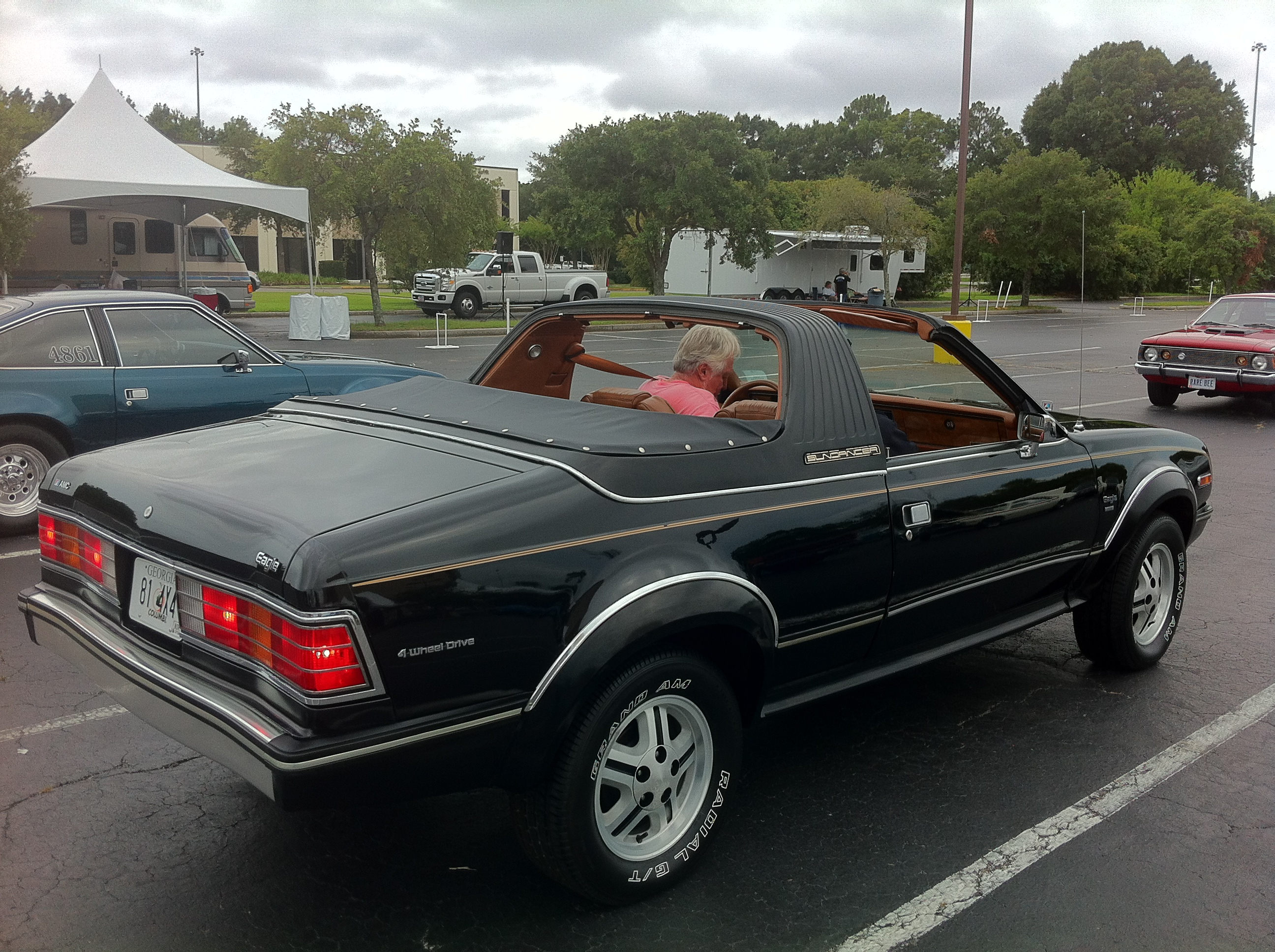 1981 AMC Eagle Sundancer 4WD convertible. An innovative luxury SUV manufactured by American Motors Corporation (AMC) in conjunction with the Griffith Company. Photographed at the 2014 American Motors Owners (AMO) convention that was held in North Charleston, North Carolina, USA.